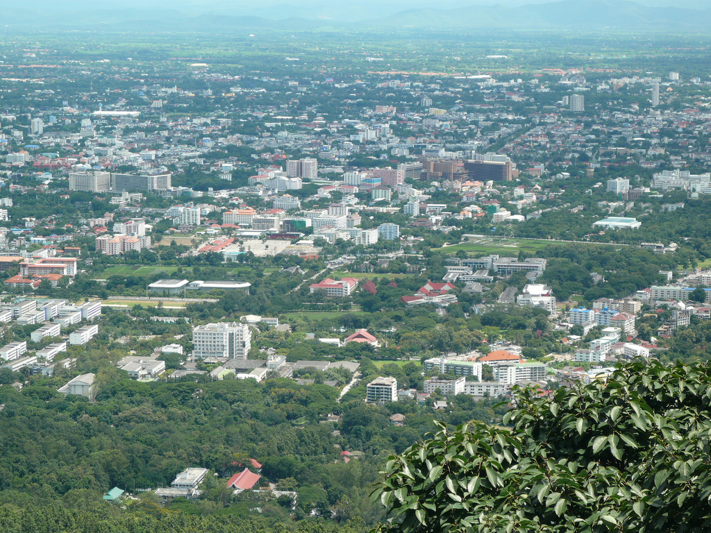 Chiang Mai from Doi Suthep, Thailand